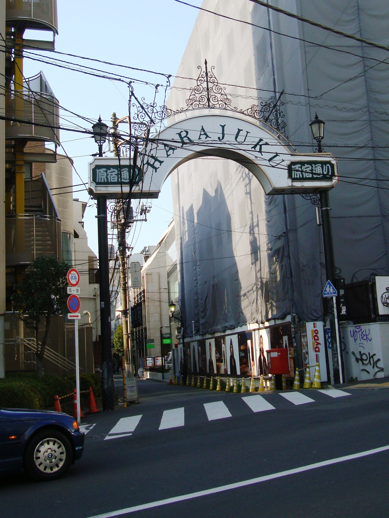 The Hrajuku Dori shopping street's gate, Harajuku, Tokyo